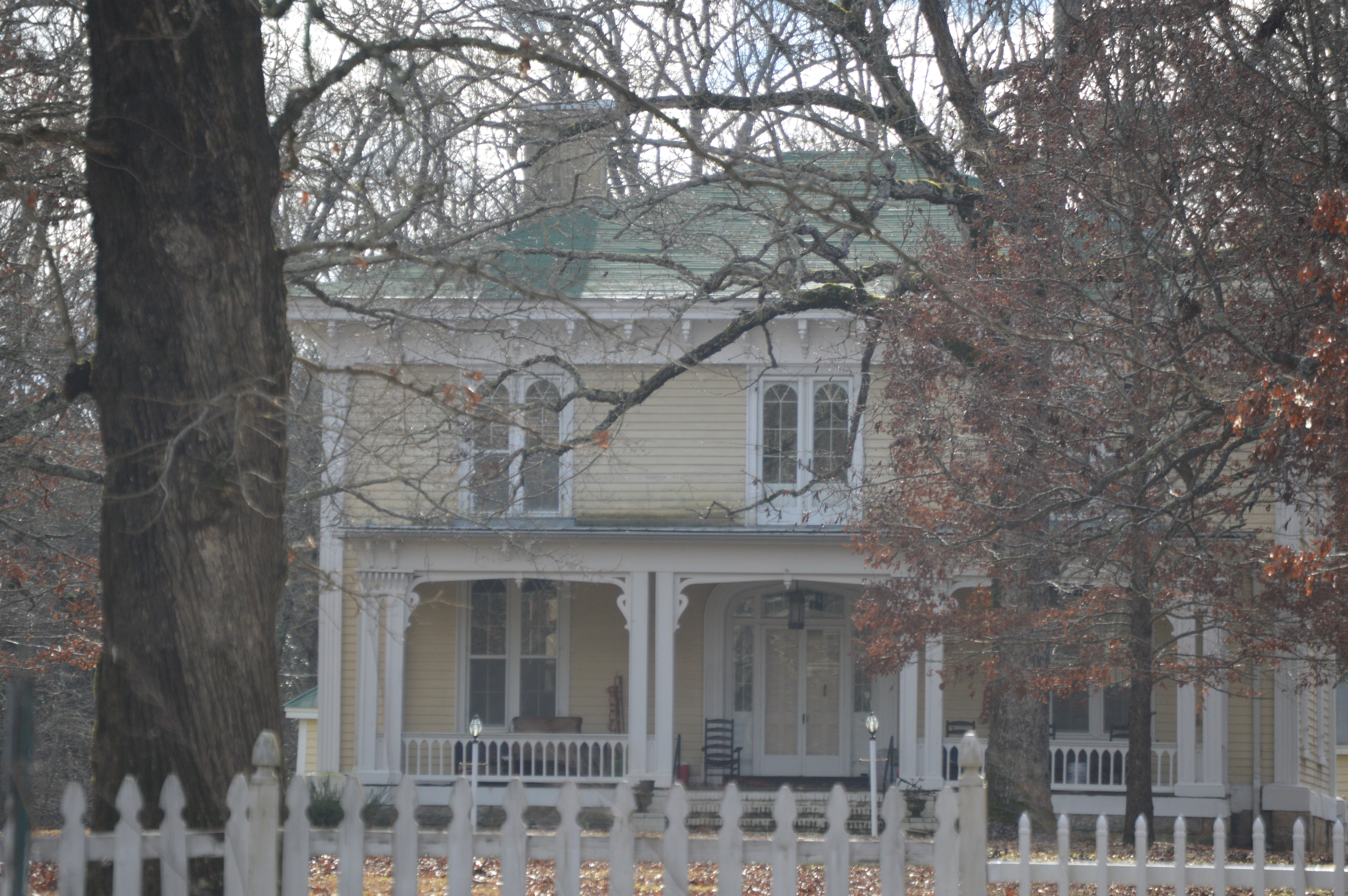 Front of the William J. Hawkins House, located along U.S. Routes 1/158 just southwest of Ridgeway in Warren County, North Carolina, United States. Built in 1855, it is listed on the National Register of Historic Places.